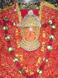 Jeen Mata Ji Photo by Sudhir Kumar Garhwal